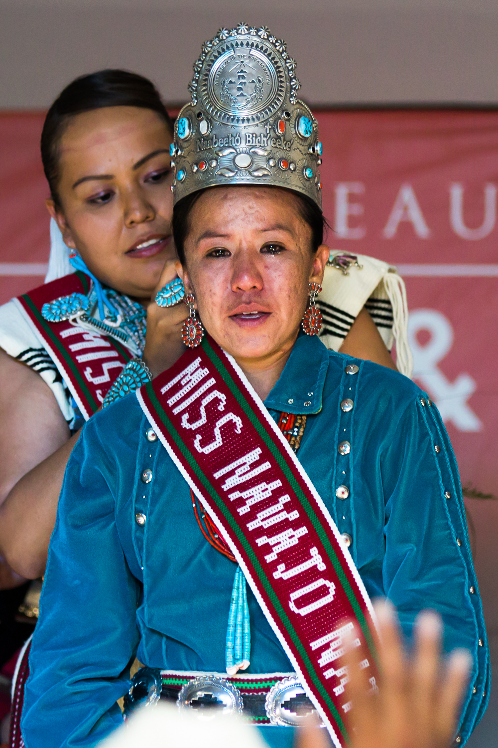 Former Miss Navajo Crystalyne Curley adjusts newly crowned Leandra Thomas' sash.